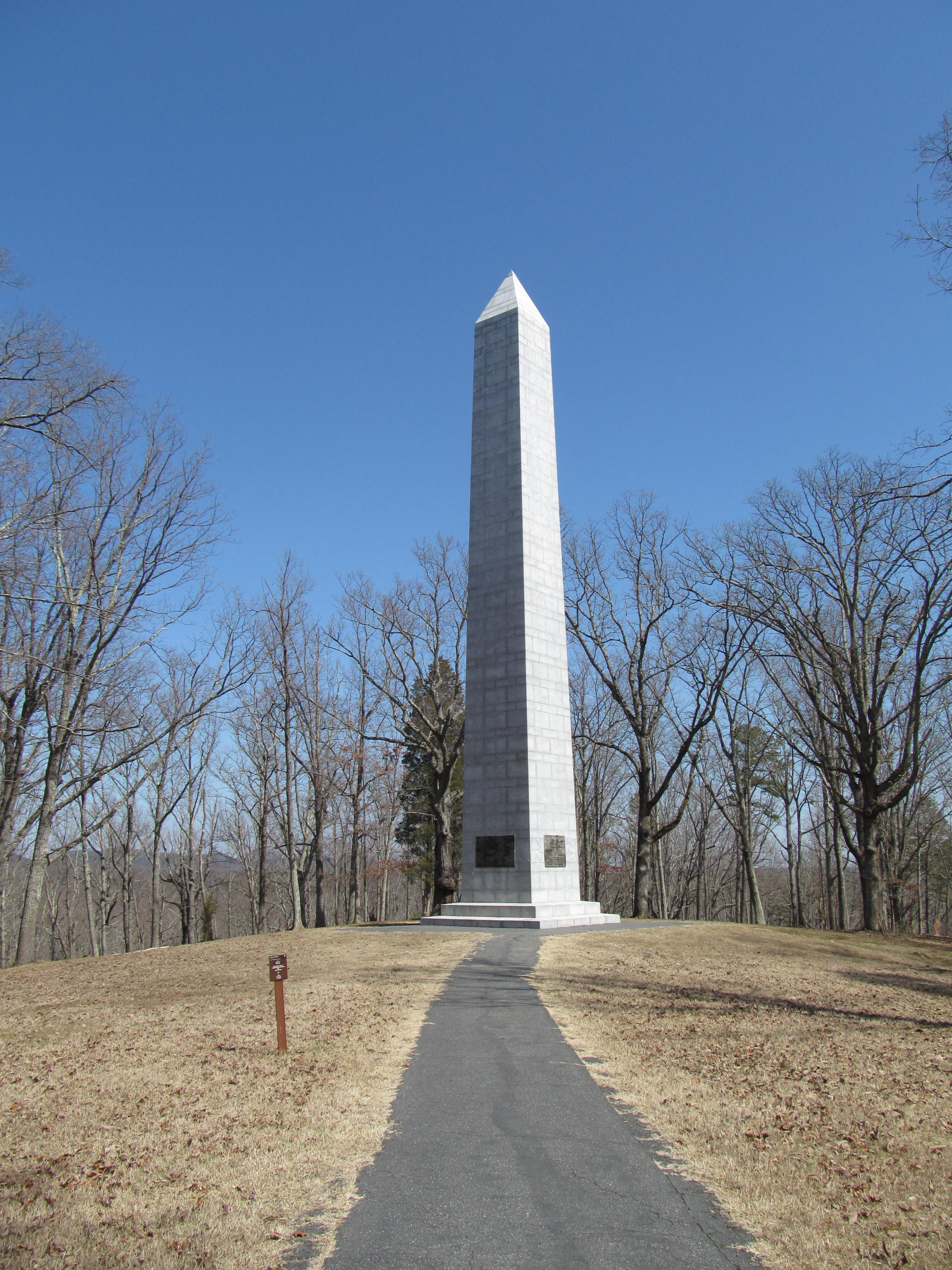 Kings Mountain National Military Park - South Carolina